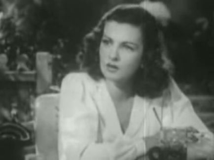 Screenshot of Joan Bennett from the film Scarlet Street